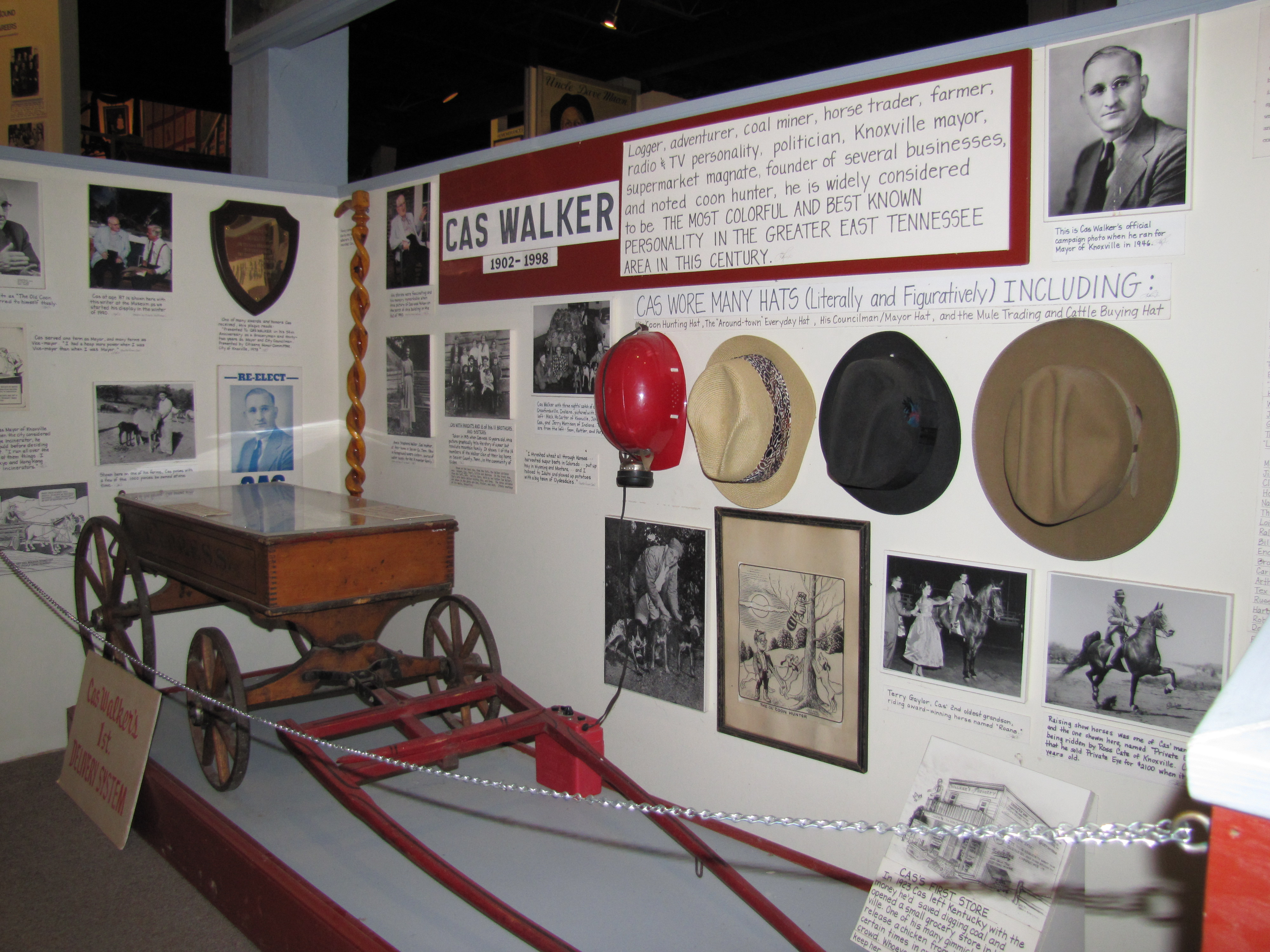 Cas Walker display at the Museum of Appalachia in Norris, Tennessee, USA. Walker was a well-known East Tennessee businessman and politician. This display is located on the first floor of the "Appalachian Hall of Fame" building.